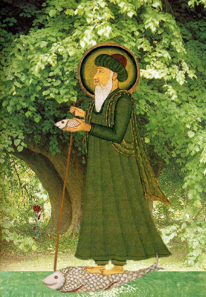 Khidr